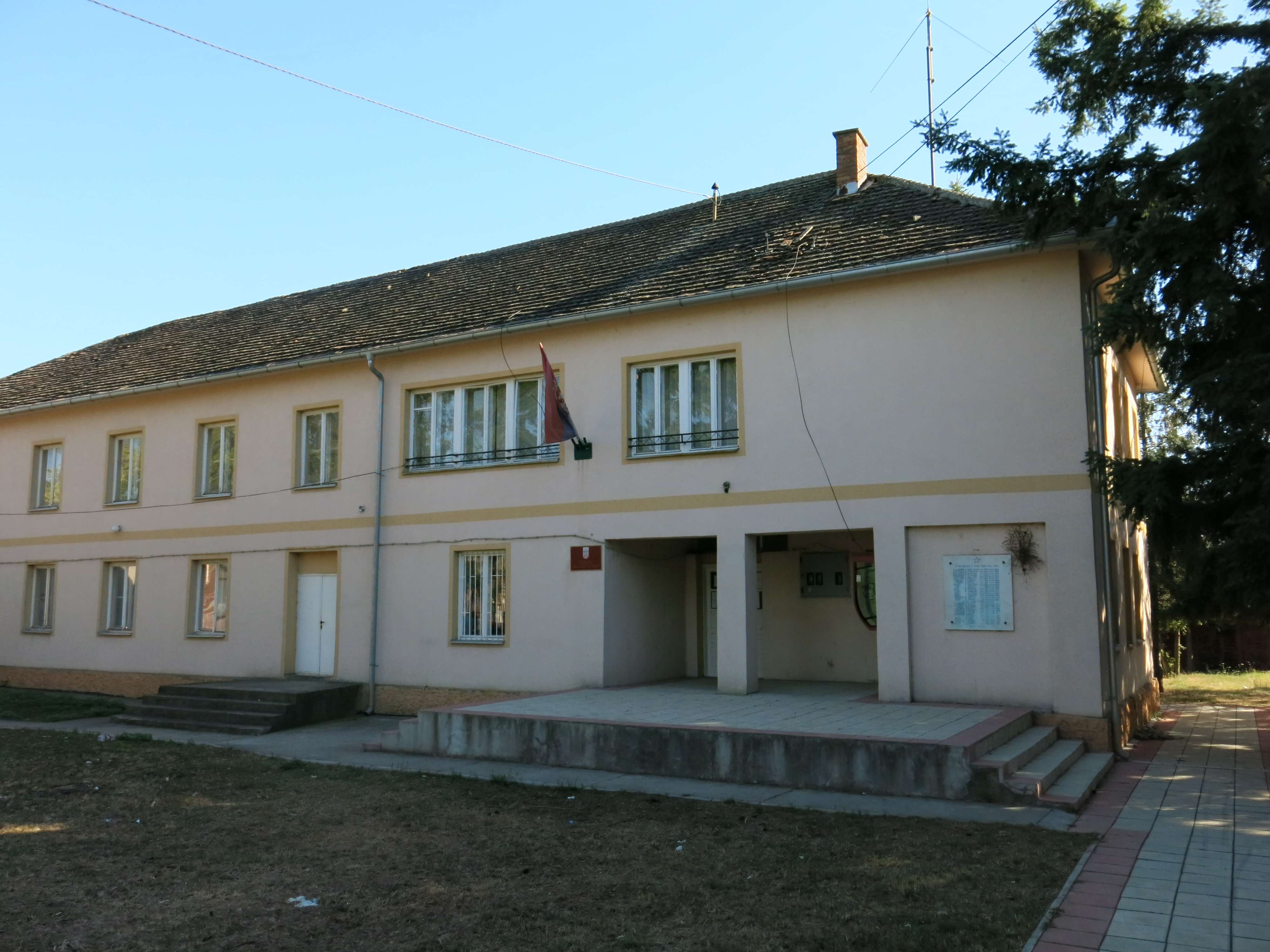 Lunjevac, Local community office